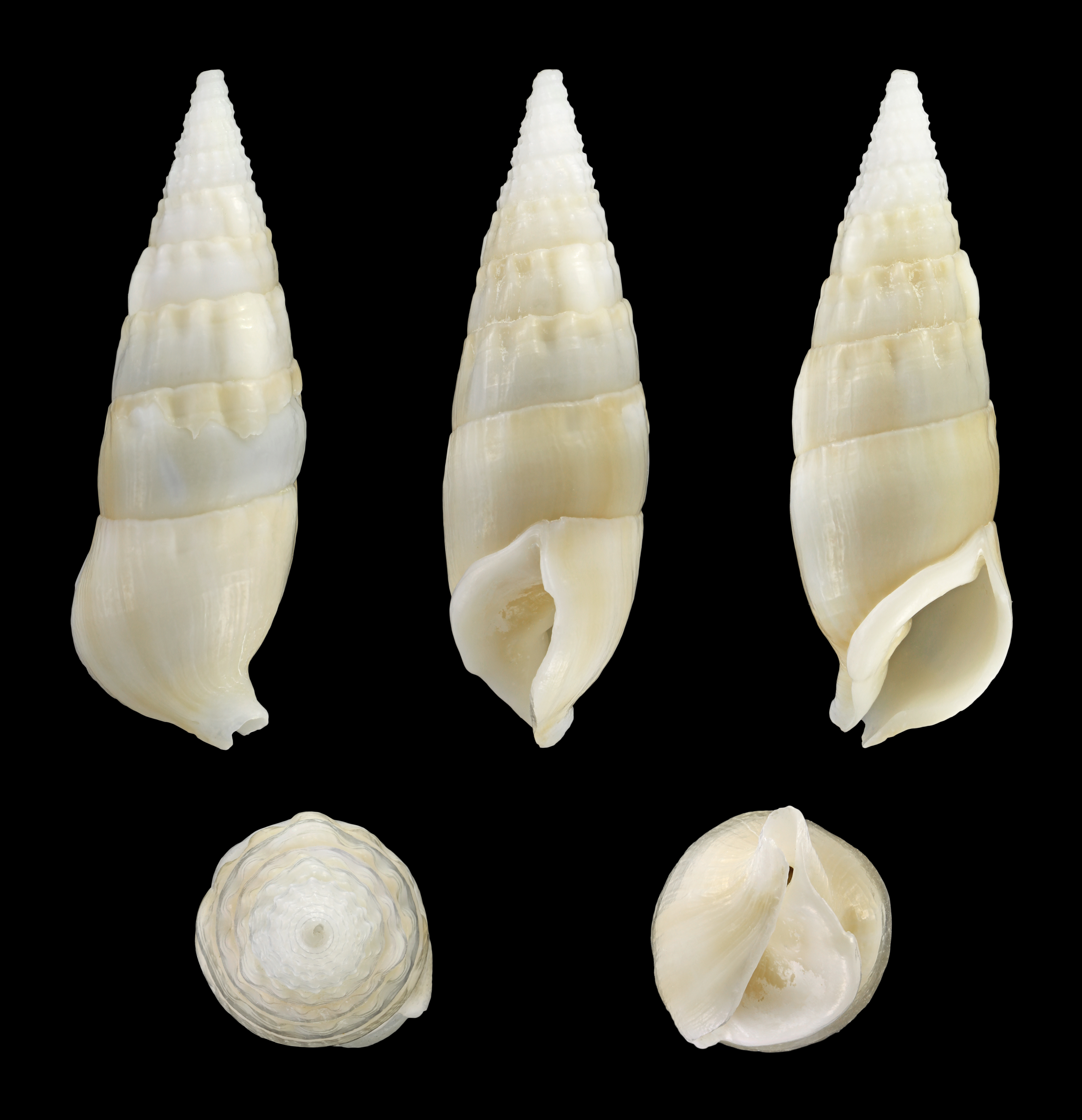 Common Cerith; Height Diameter Length 5.1 cm; Originating from the Maldives; Shell of own collection, therefore not geocoded. Dorsal, lateral (right side), ventral, back, and front view.